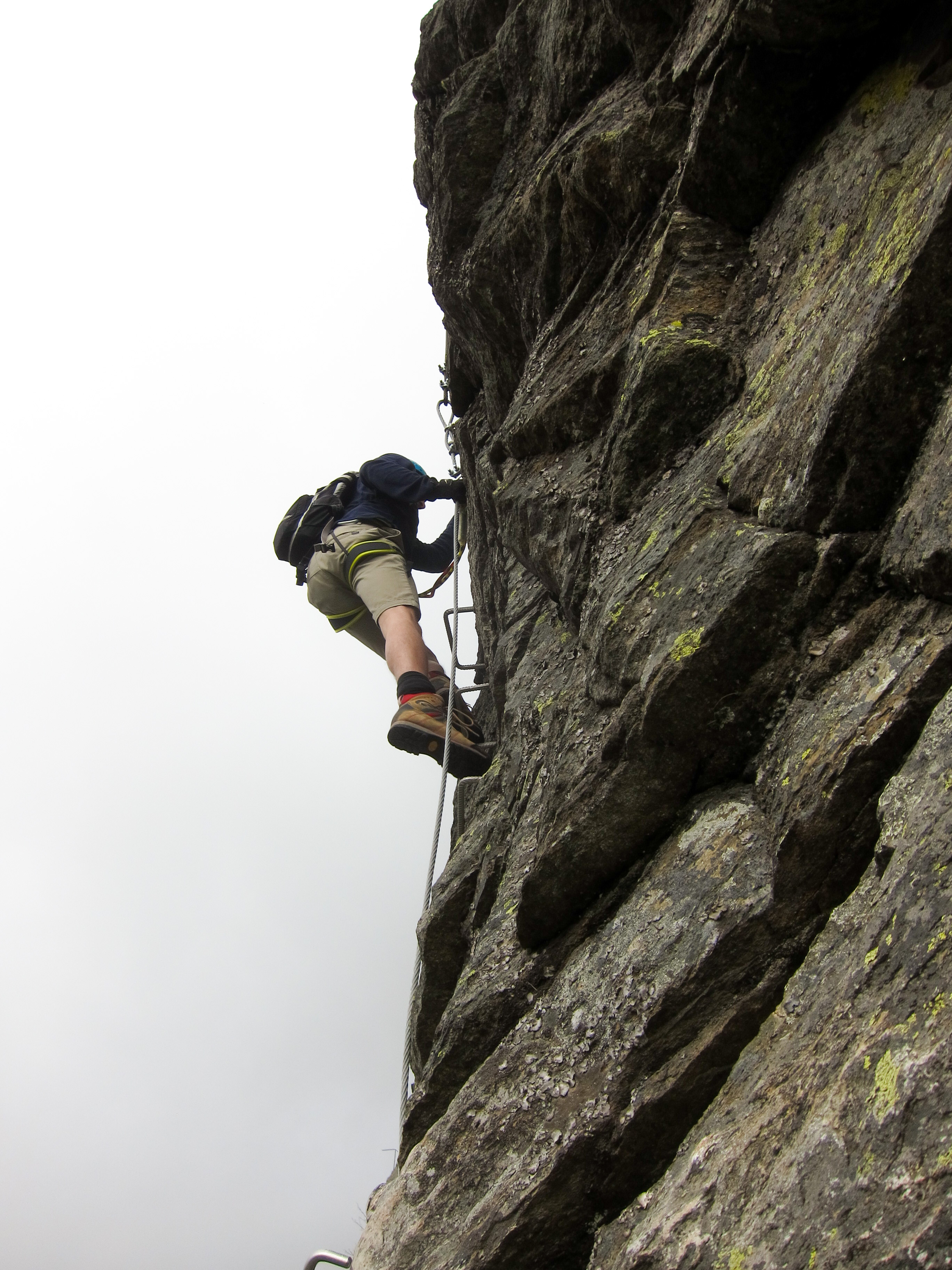 Alpin climber on via Ferrata Nito Staich of Monte Tovo above Sacro Monte di Oropa. In Biella, Piemonte, Italy - 2017-05-14.